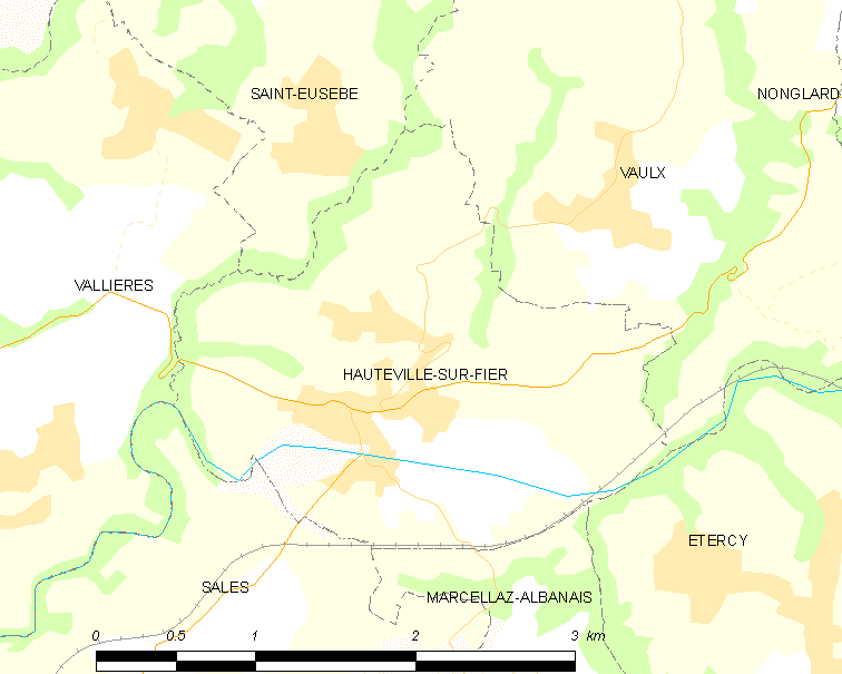 Map of French municipality Hauteville-sur-Fier